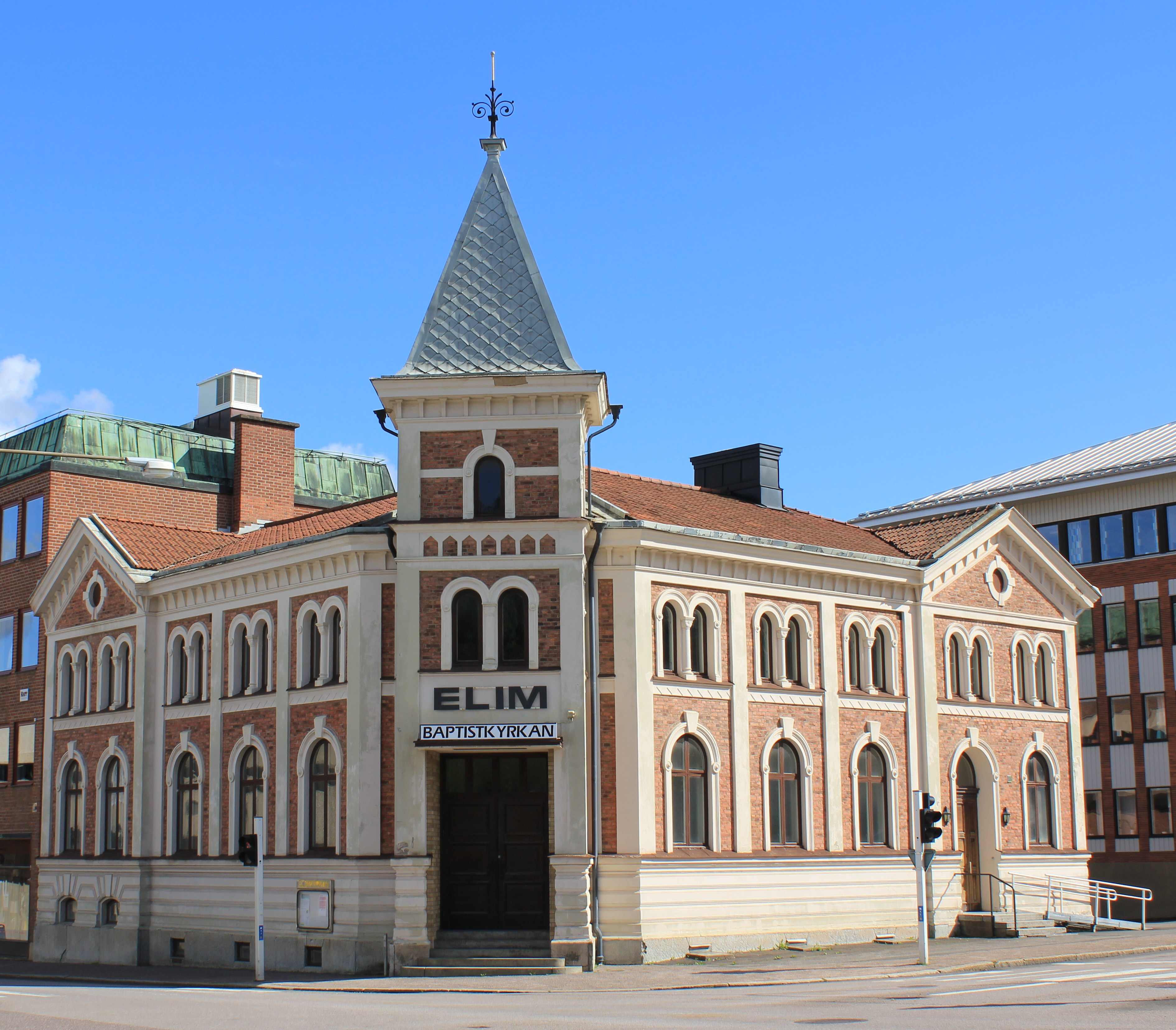 Elimkyrkan free church in Skövde, Sweden. The church is part of the Evangelical Free Church (EFK) and was built in 1888-89.